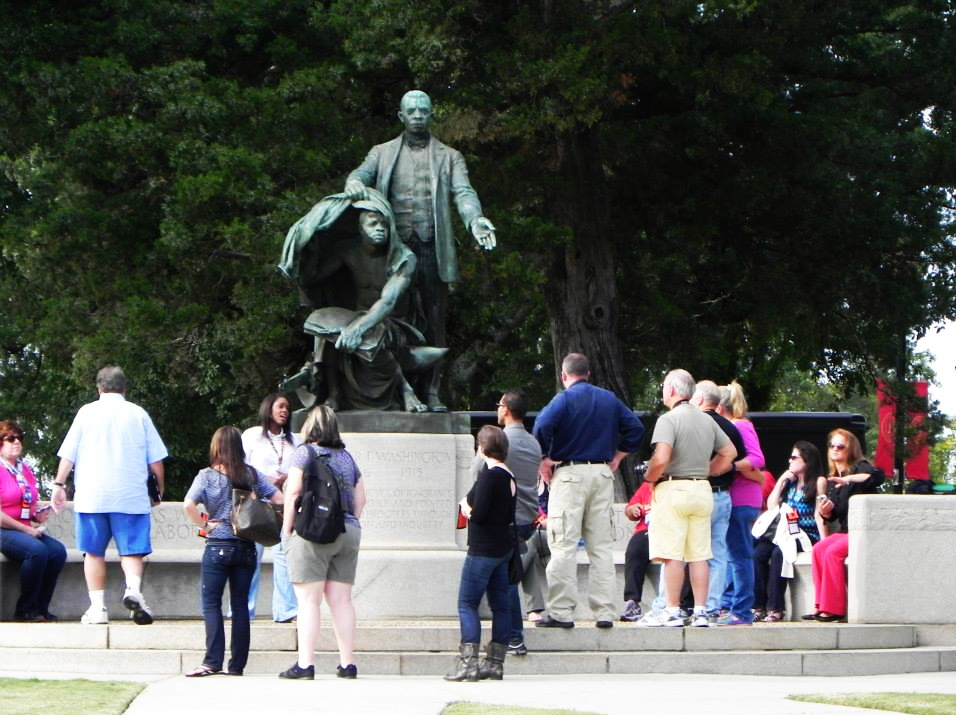 Tuskegee University is also the Tuskegee Institute National Historic Site and attracts visitors from all over the nation and the world. The famous Lifting the Veil of Ignorance statue of Booker T. Washington was designed by sculptor Charles Keck and unveiled on April 5, 1922. The statue depicts Dr. Washington lifting the veil of ignorance off his people, who had once been enslaved, by showing them the ways of a better life through education and skills.